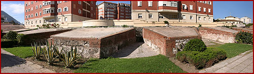 Devil's Tongue Battery in Gibraltar brick embrasures - pic from which is cc by sa